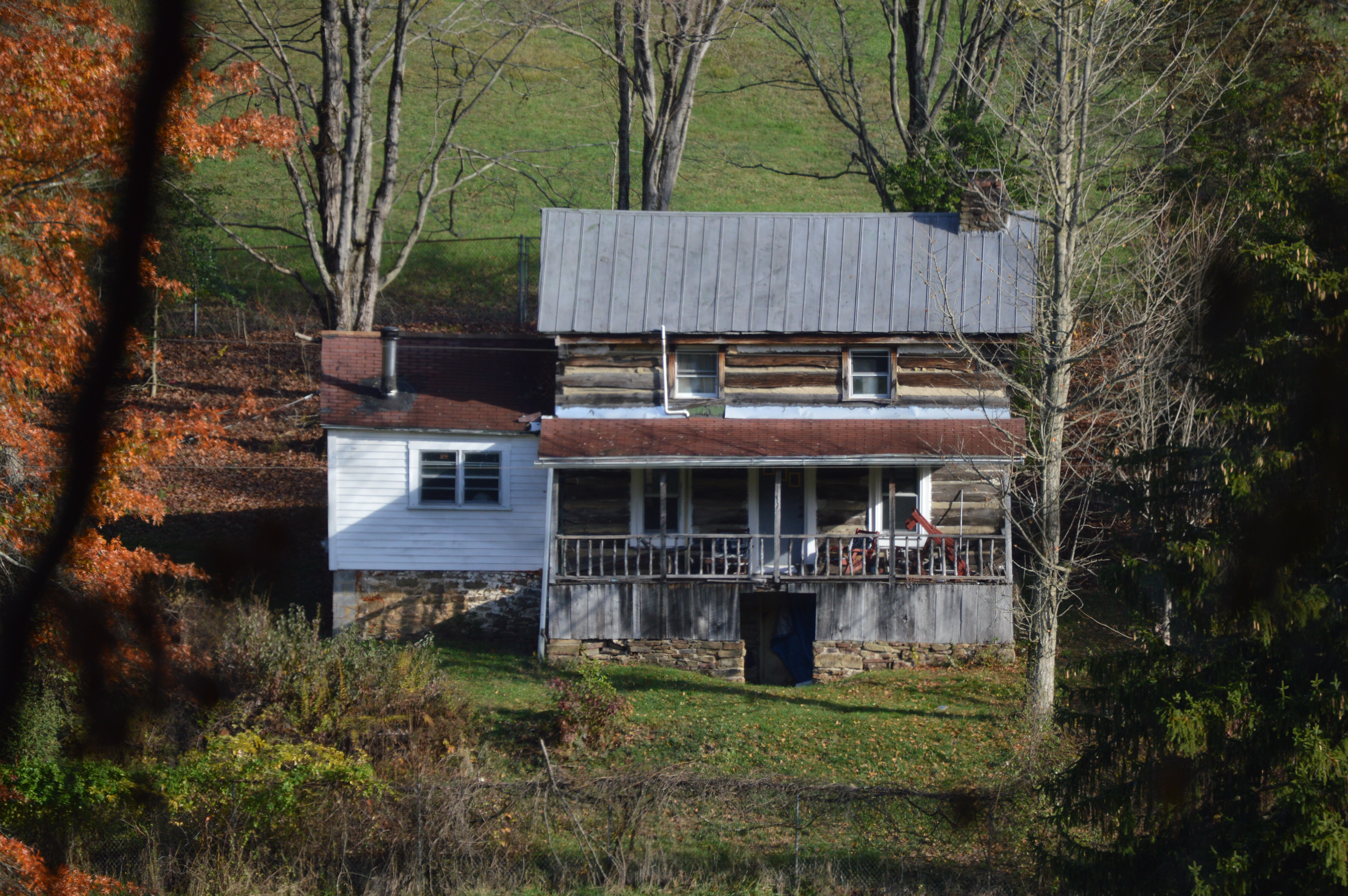 Front of the Clelland House, located on River Run Road southeast of White Hall in northwestern Taylor County, West Virginia, United States. Built in 1800, it is listed on the National Register of Historic Places.